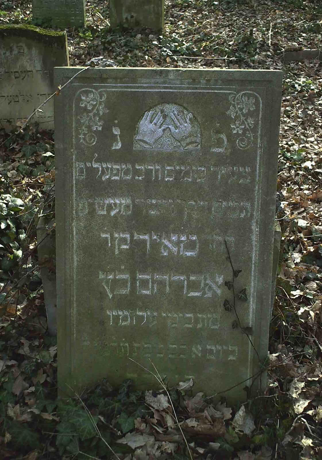 Gravestone of cohen (symbolized by two hands). Jewish cemetery, Skwierzyna (lubuskie voivodhip), Poland.